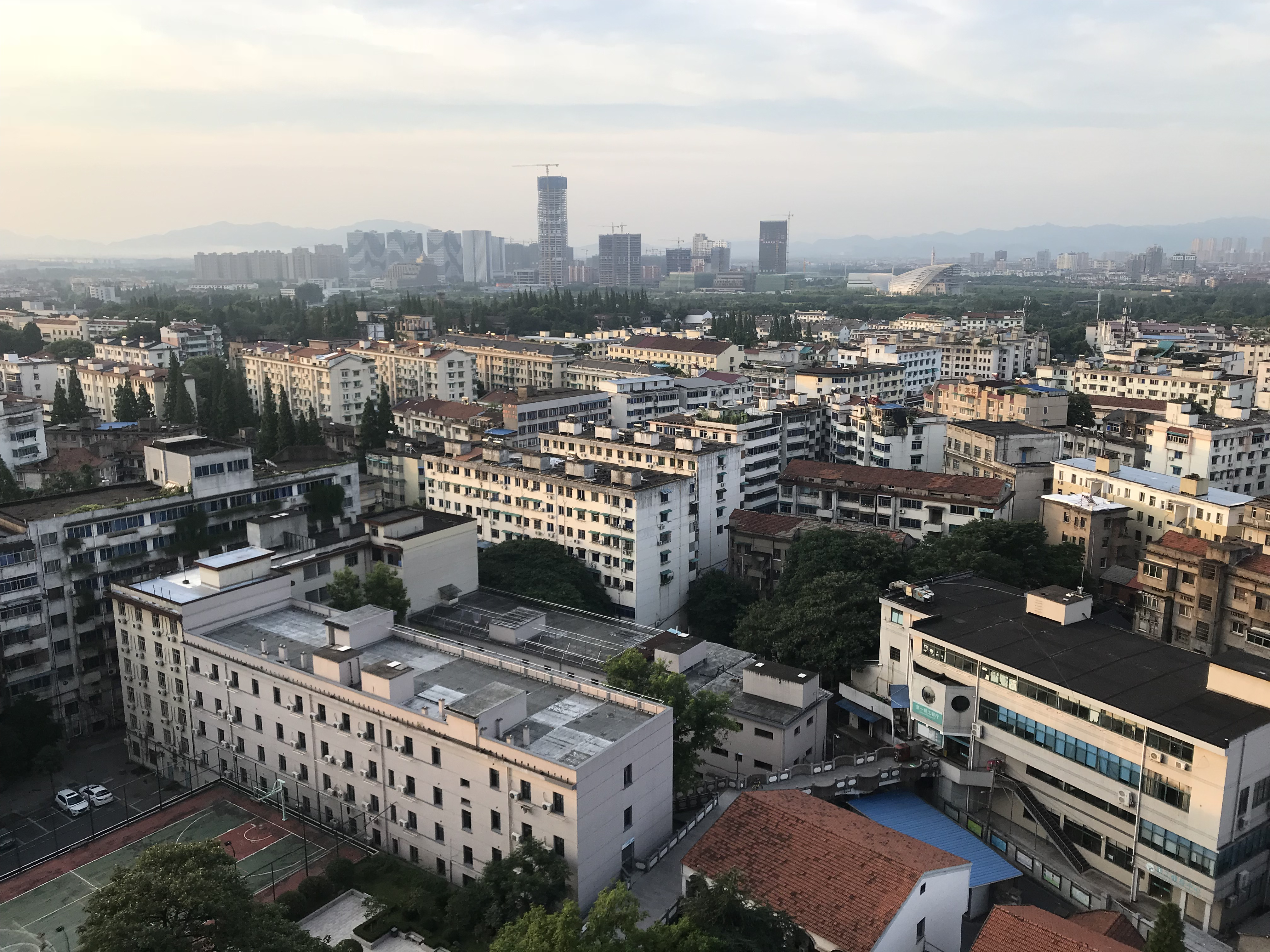 201806 Sunrise over Jinhua